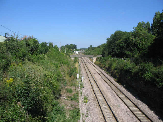 Corsham Railway Cutting on the Great Western Main Line, Corsham in Wiltshire A view east along the main Bristol-London railway line from the single track bridge on Valley Road. The bridge in the far distance carries the B3353 road over the railway. The overgrown concrete pad in the near foreground is the eastbound platform of the former Corsham railway station